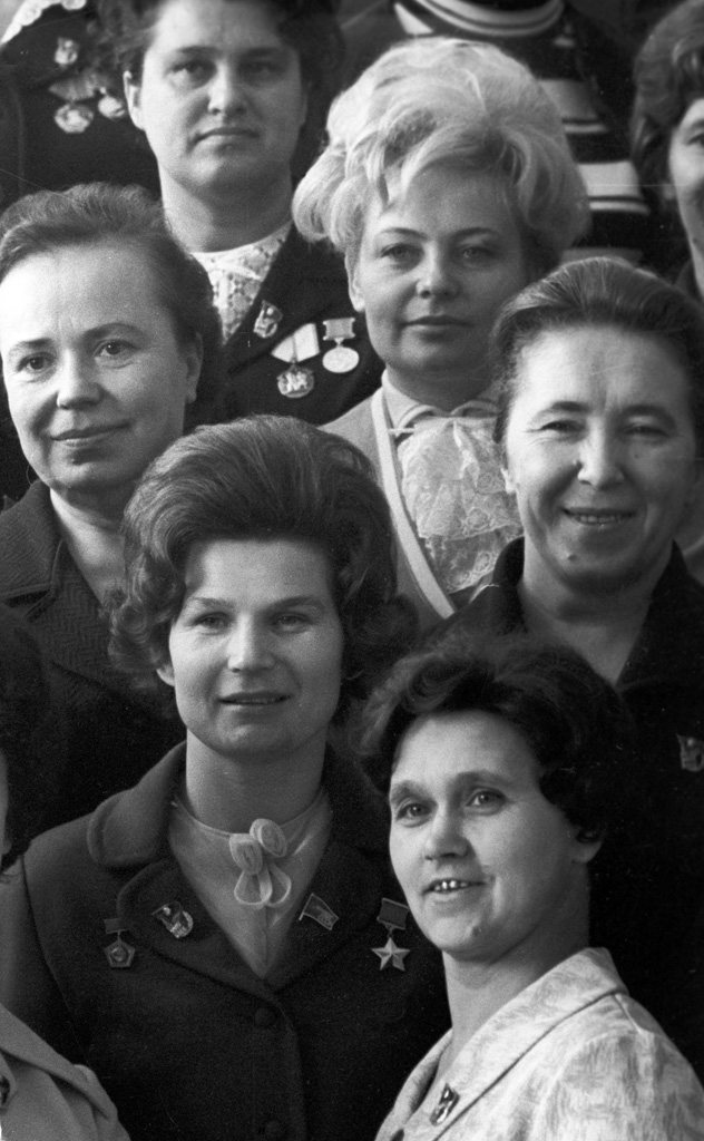 “Cosmonaut Valentina Tereshkova at XXIV CPSU Congress”. March 30 - April 9, 1971. The XXIV CPSU Congress. The Kremlin Palace of Congresses. USSR space pilot, Colonel Engineer, Valentina Tereshkova.